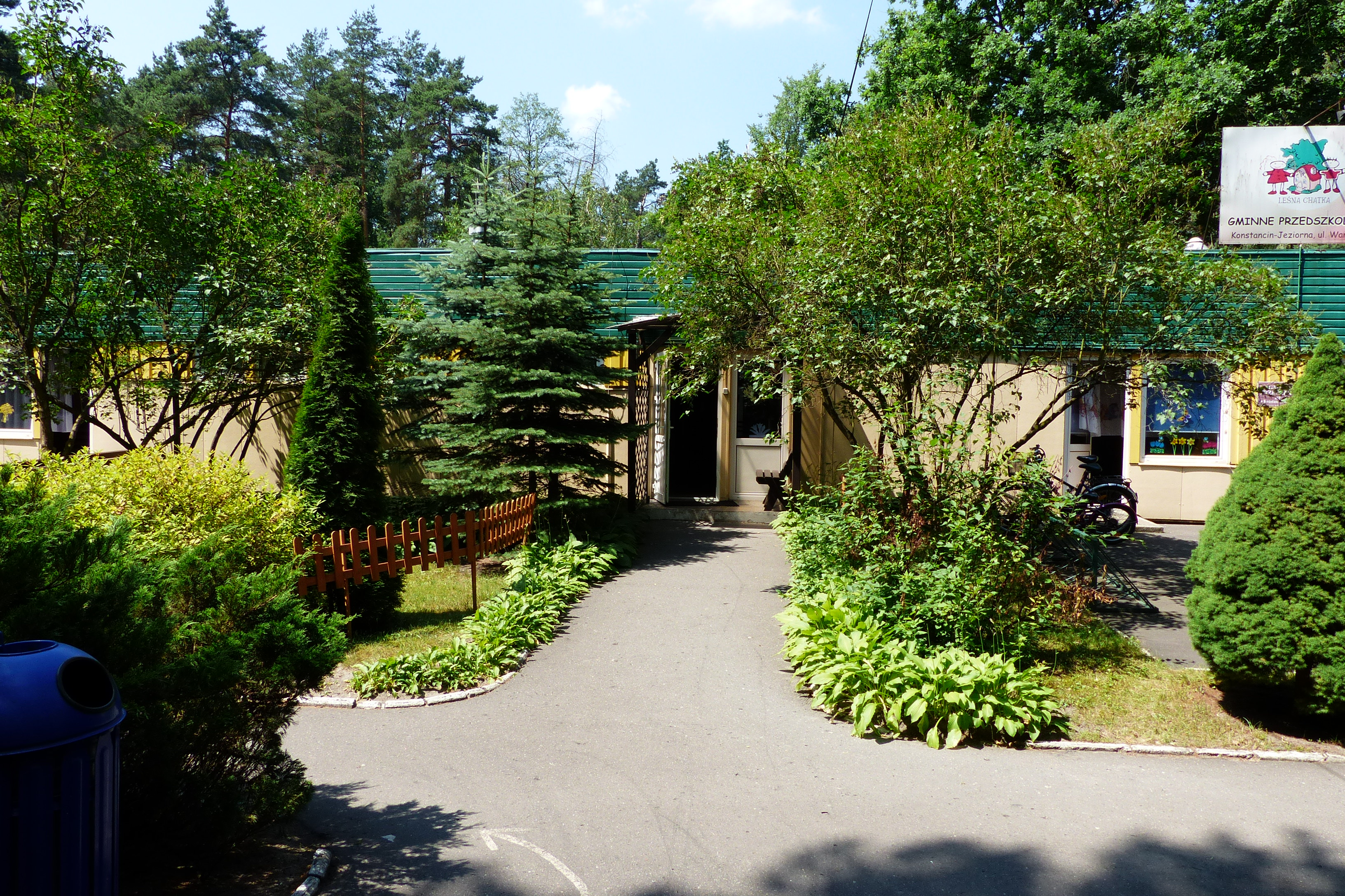 "Leśna Chatka" Kindergarten, Warecka Street, Konstancin-Jeziorna